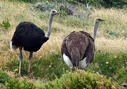 Male and Female ostriches Cape Point